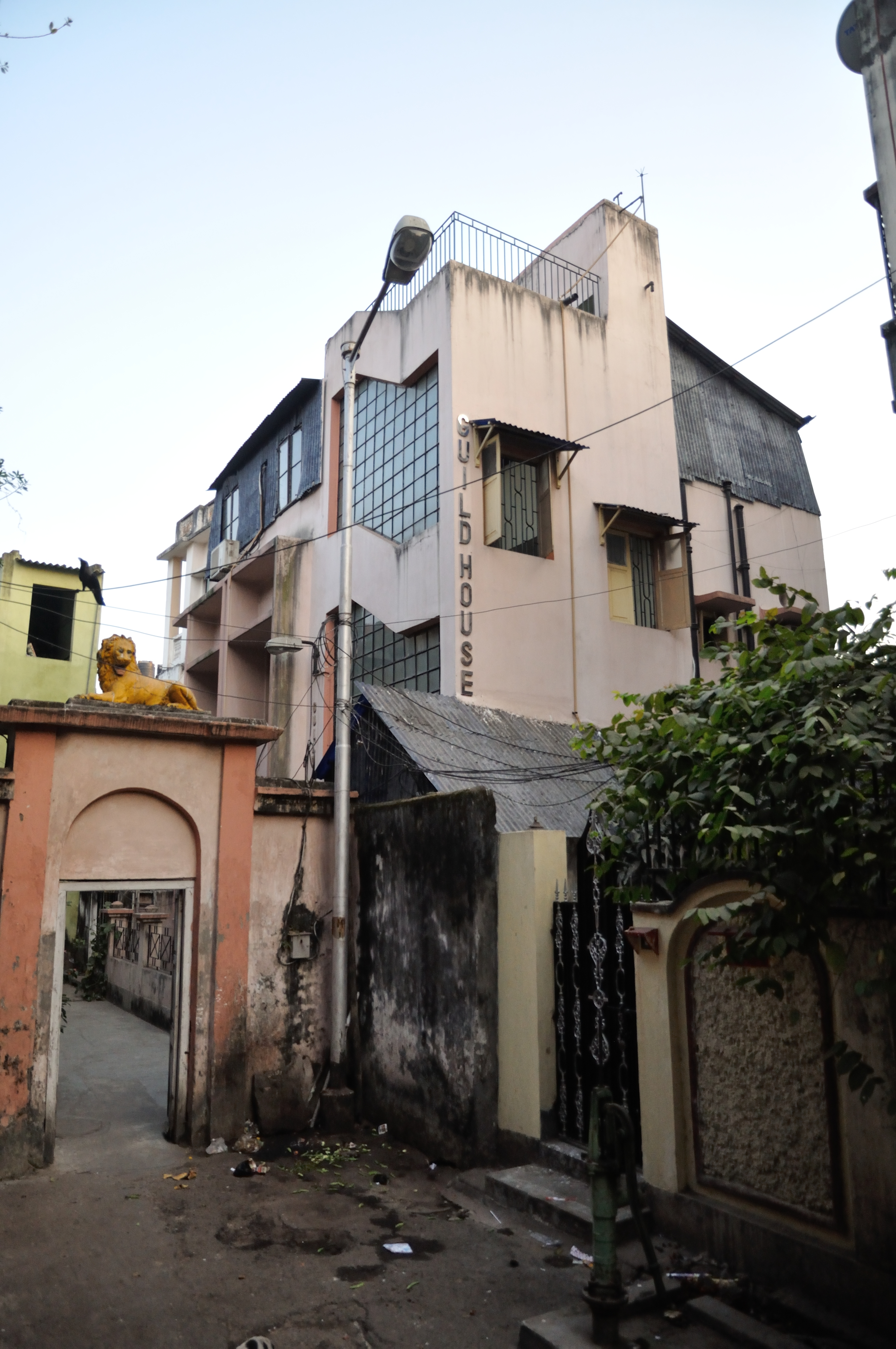 It is the only office of 'The Publishers & Booksellers Guild' who organizes the 'Kolkata Book Fair' since 1976.